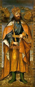 Trdat the Great